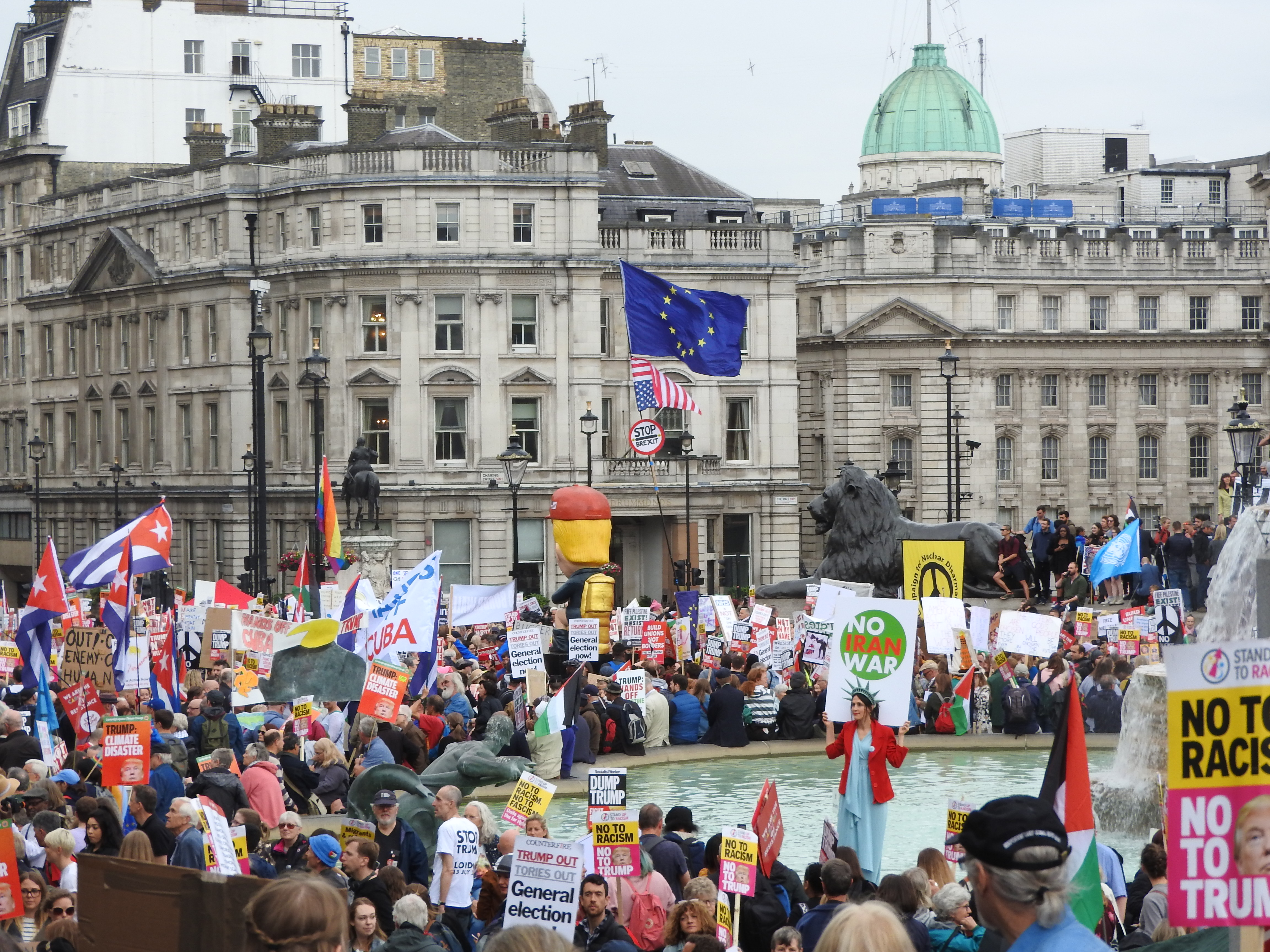 In June 2019, the POTUS helicoptered into London for a State Visit. He stayed massively out of sight behind security screen; everything happened in private. His visit did not include addressing both Houses of Parliament, or a horse drawn carriage ride. He claimed that there were no protests. The biggest protest was on Tuesday 4 June, starting in Trafalgar Square leading to speeches in Whitehall, and then half moving back to Trafalgar Square, and the other half moving by the Embankment to Parliament Square, where the Trump baby blimp had flown earlier. In the distance is the Dump Trump (statue) by Lessom.